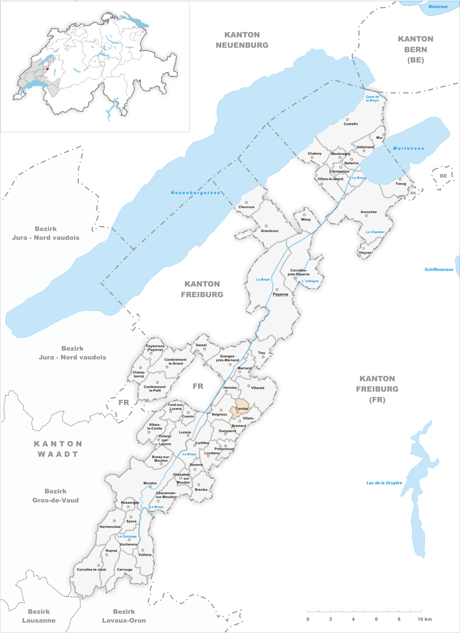 Municipality Cerniaz